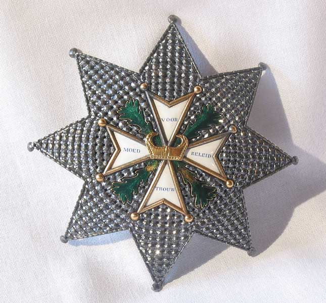 Military Order of William, consisting of a Greek cross, in the middle of an eight-pointed star, awarded to General Chassé in 1832.